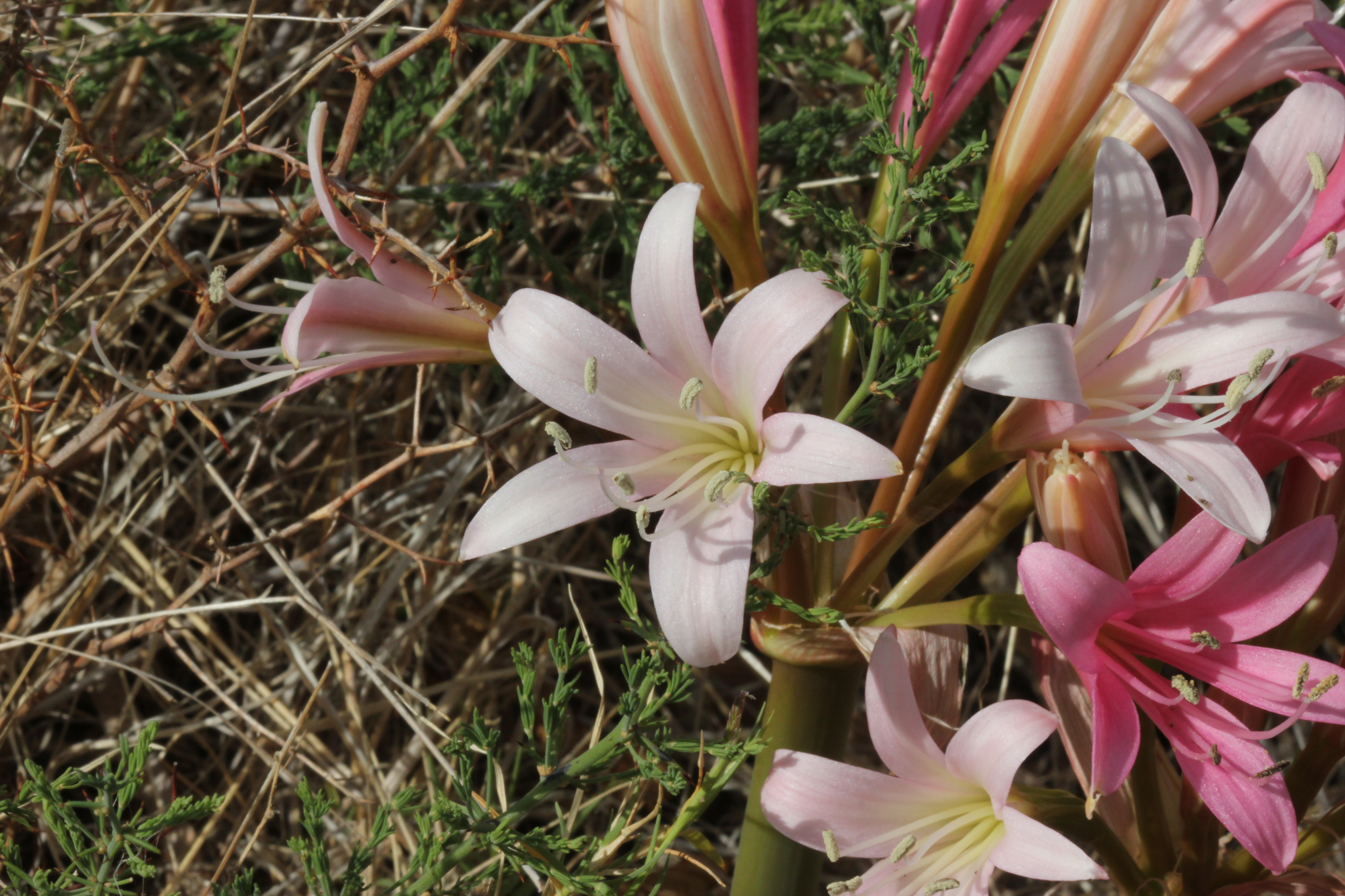 Ammocharis longifolia flower details